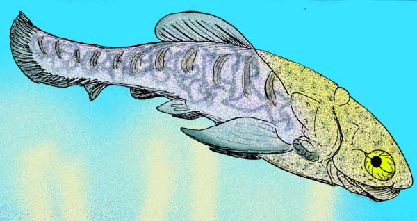 Reconstruction of the Late Devonian arthrodire placoderm, Incisoscutum ritchei.